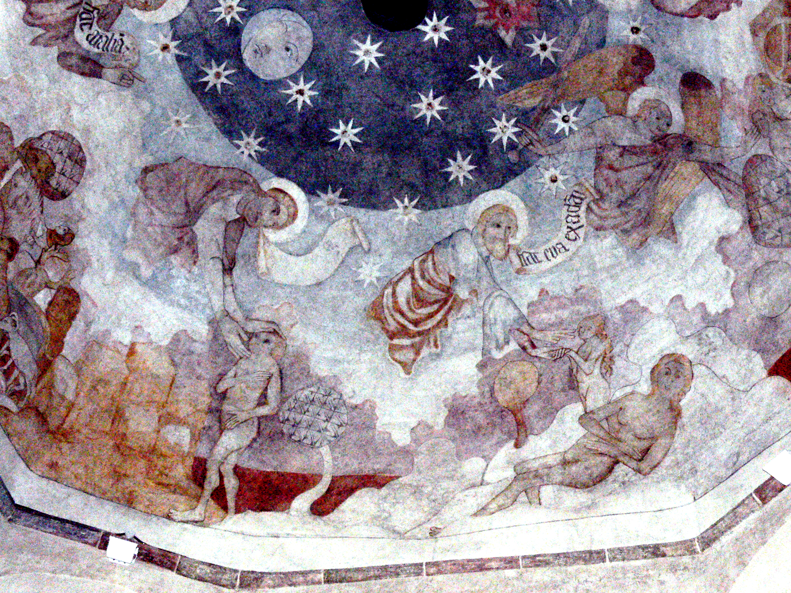 Innichen ( South Tyrol ). Monastery church: Romanesque fresco ( 1280 ) in the dome - Genesis: Creation of Adam and Eve.